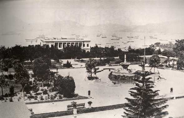 1864 picture showing Hong Kong Zoological and Botanical Gardens, Government House and Victoria Harbour.